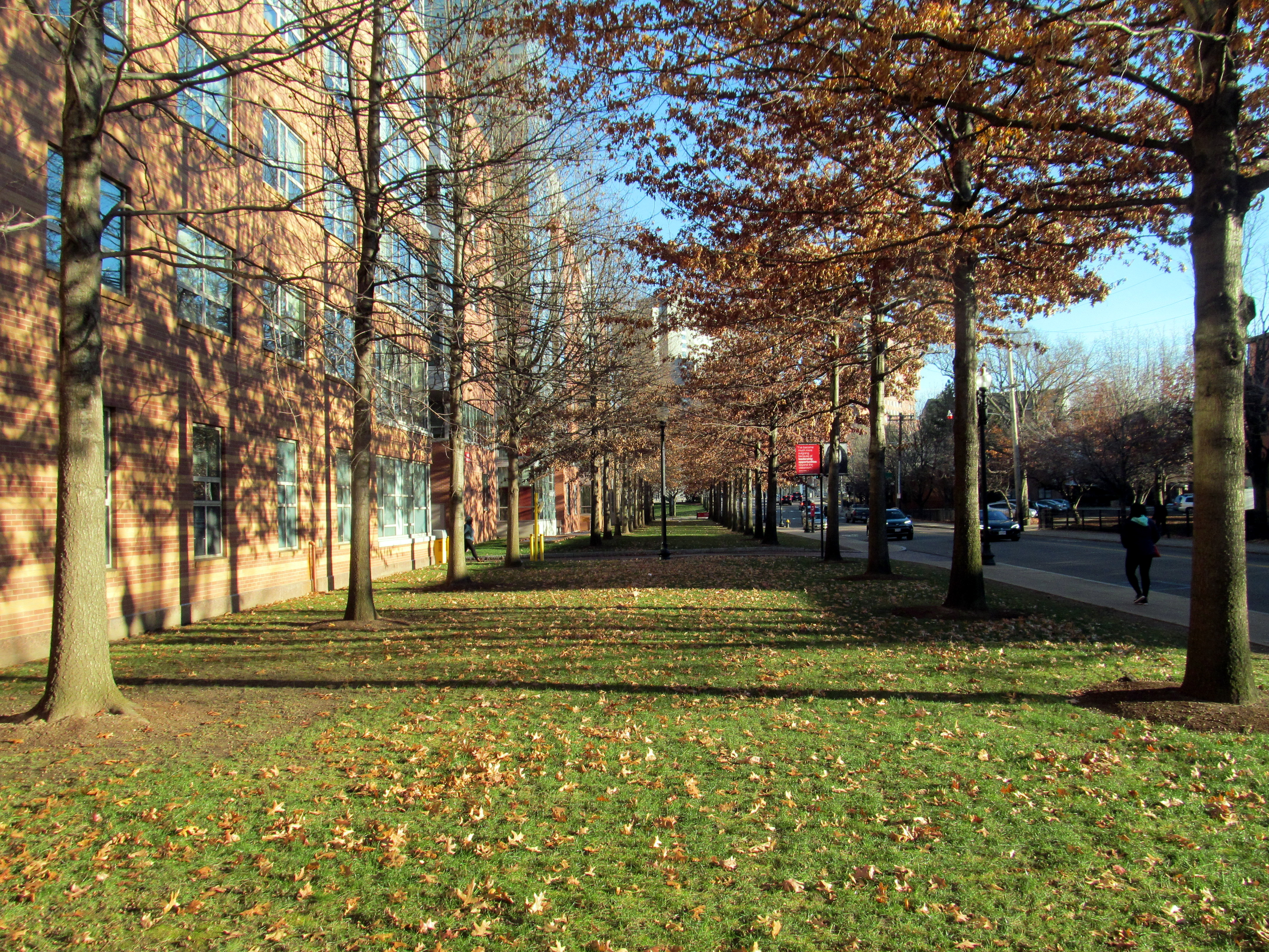 MBTA-owned right of way along Ruggles Street, photographed in December 2016. Under the Urban Ring Project, this land would have been used for a busway which run under Huntington Avenue in a tunnel and surfaced about at the photo location to enter Ruggles station.